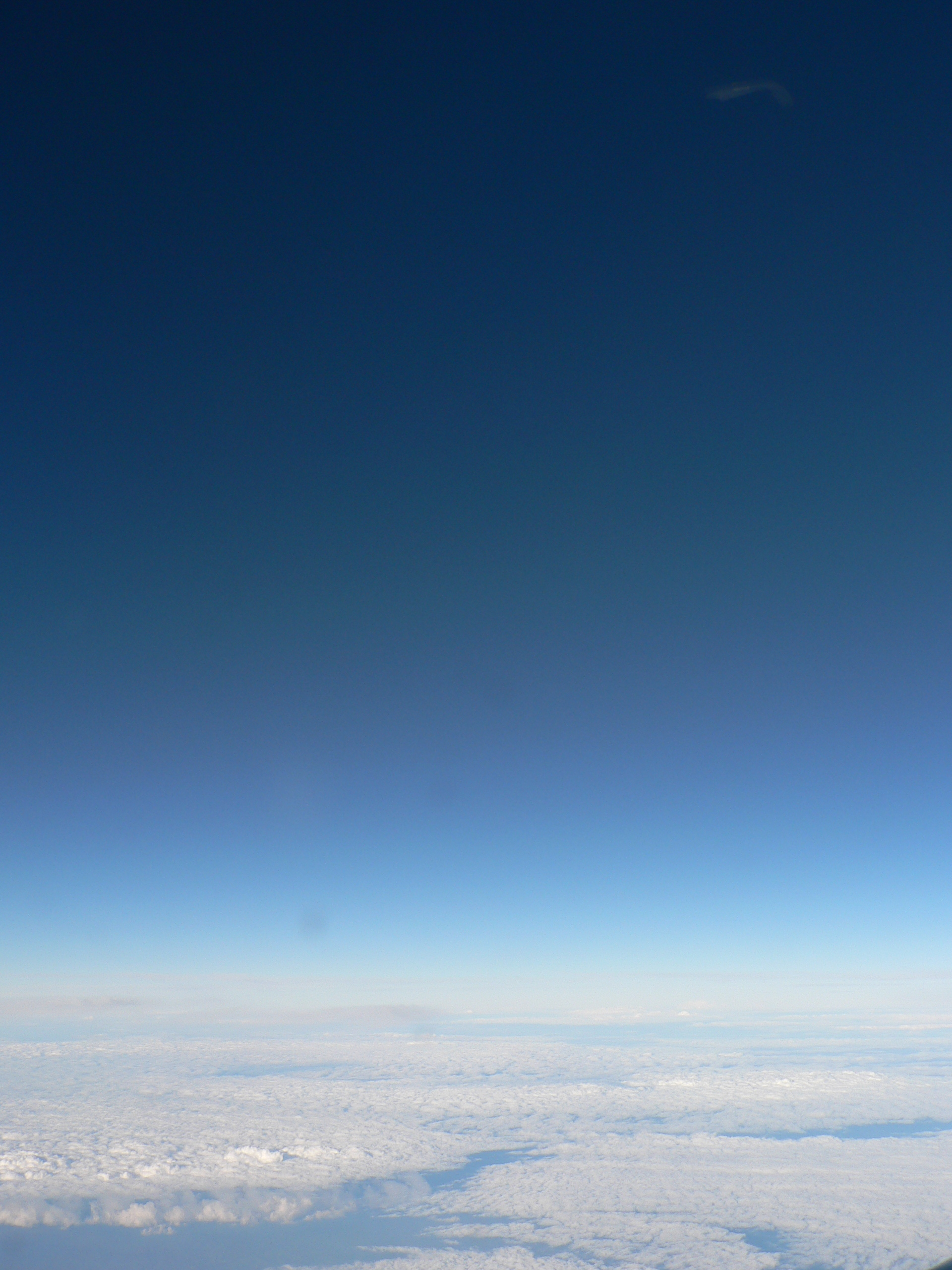 Space seen from airplane